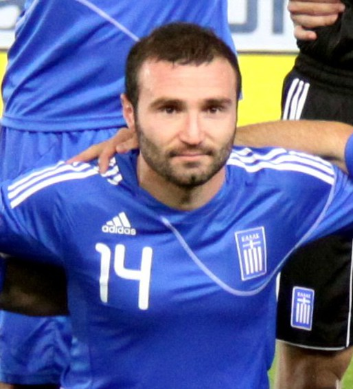 Greece national football team against the Austrian national football team (2:1)